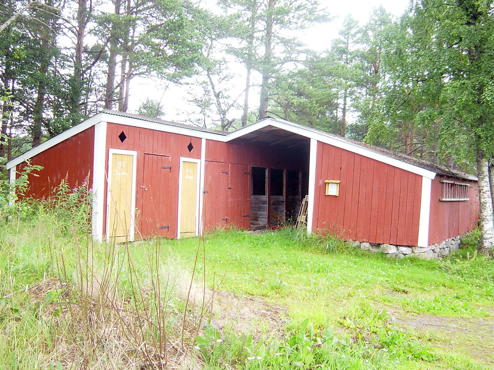 The stable. Veøy church, Molde, in Norway